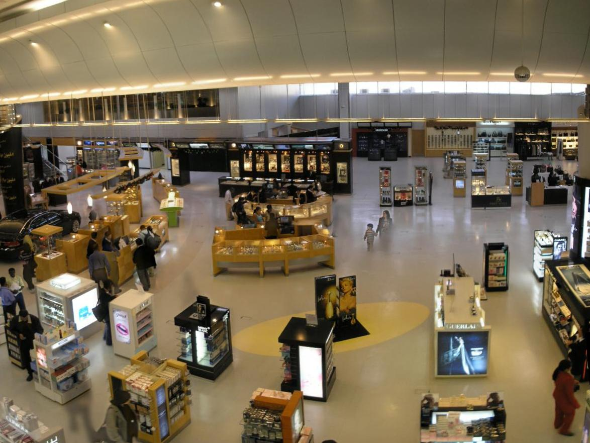 View of the duty-free area at Doha International Airport.